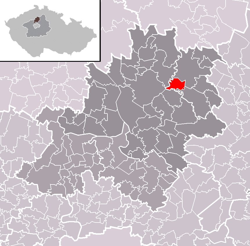 Location of Kanina municipality within Mělník District and administrative area of Mělník as a Municipality with Extended Competence.